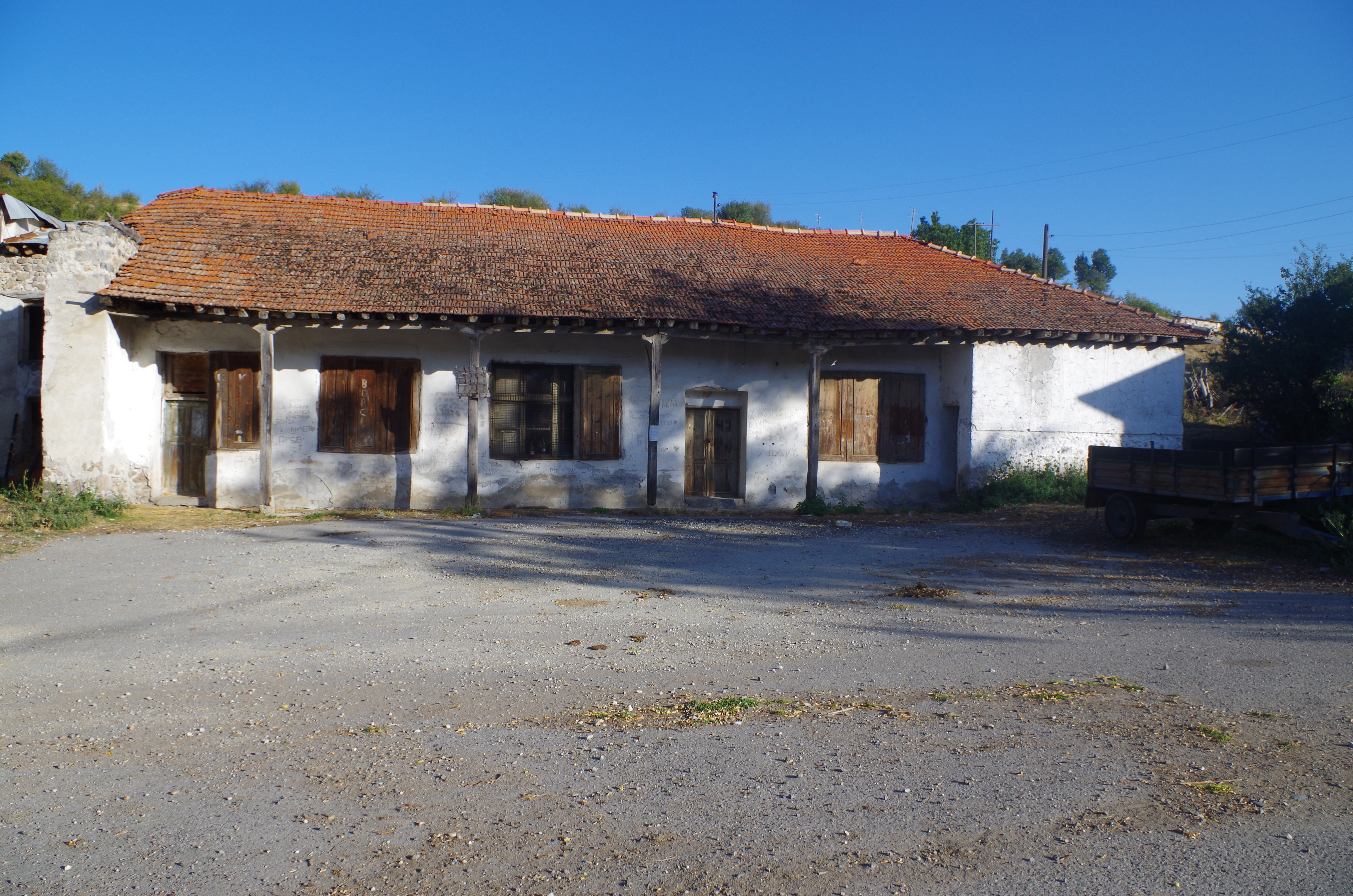 The mid-village of Bojančište